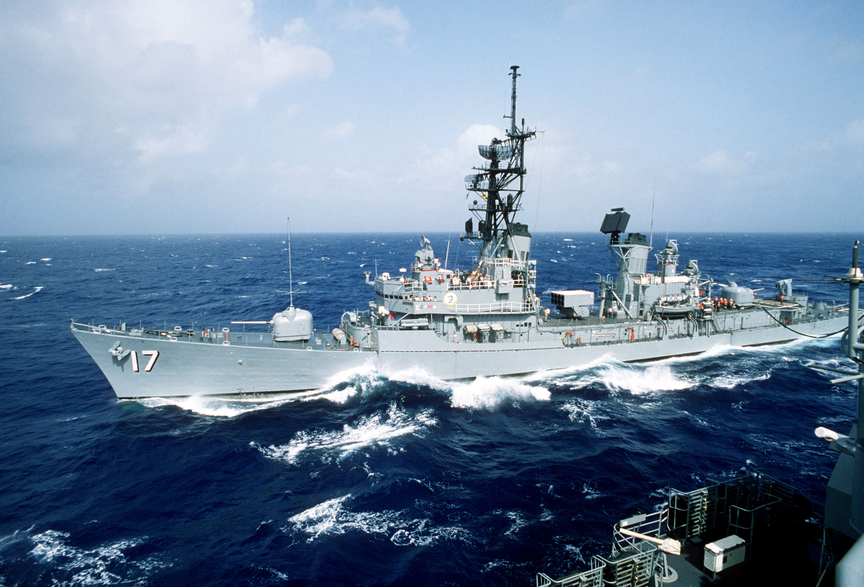 The U.S. Navy guided missile destroyer USS Conyngham (DDG-17) during an underway replenishment by the battleship USS Iowa (BB-61) in the Atlantic Ocean on 1 August 1985.